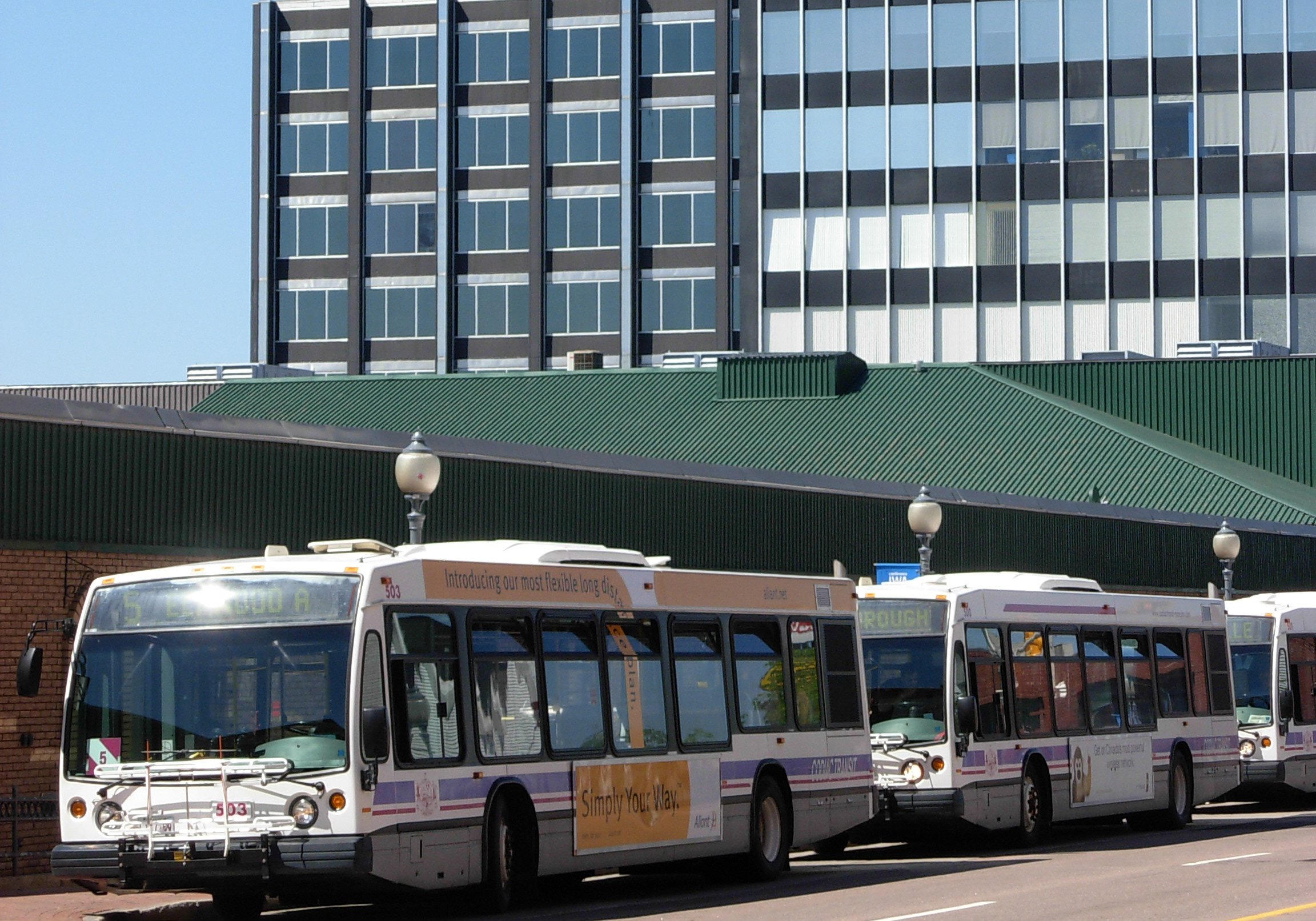 An Image of Codiac Transit Nova Buses in downtown Moncton